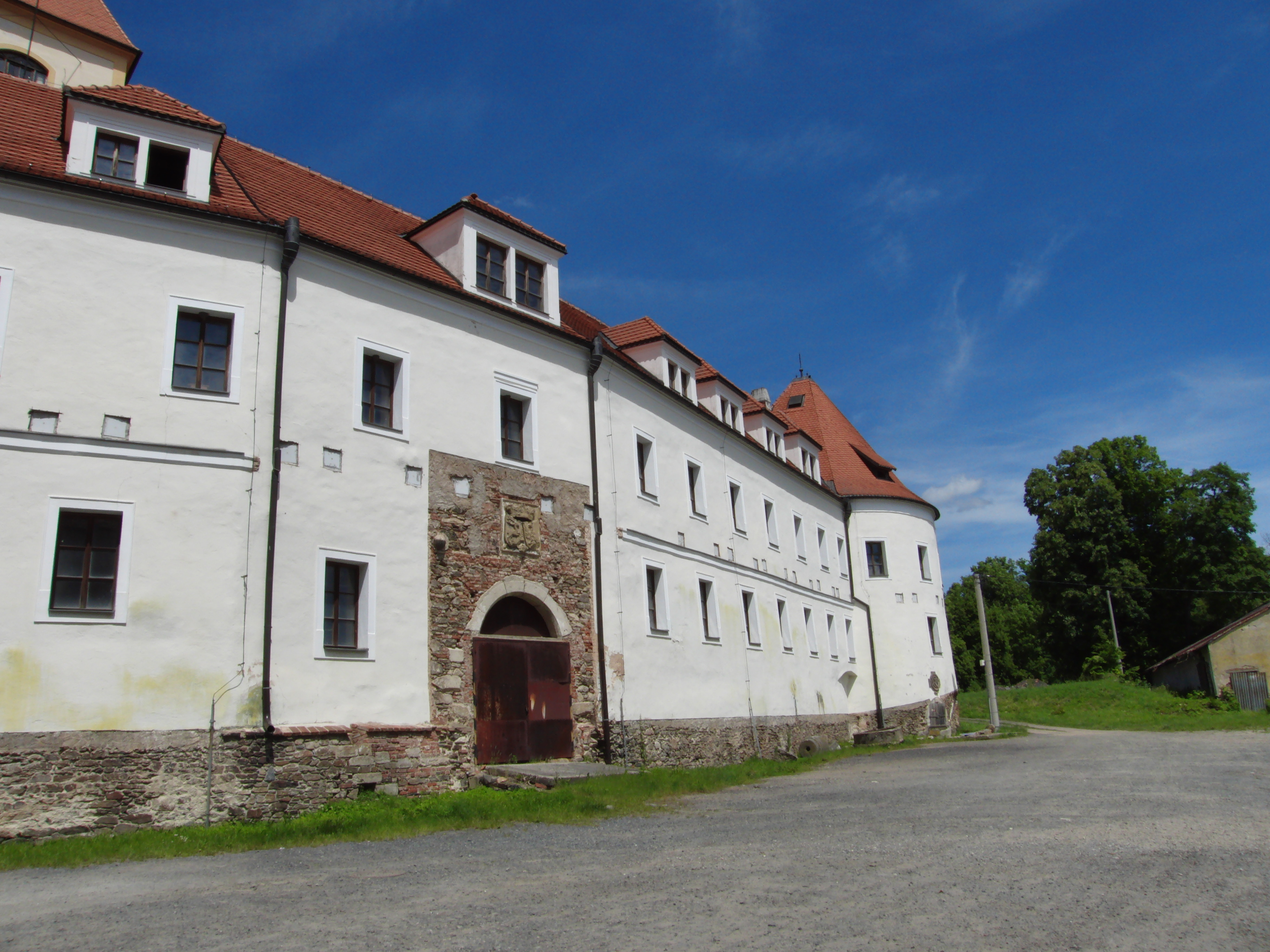 Poběžovice chateau (Domažlice district), cultural monument